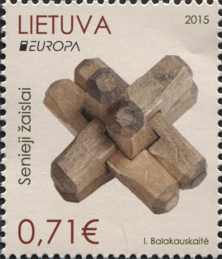 Stamps of Lithuania, 2015